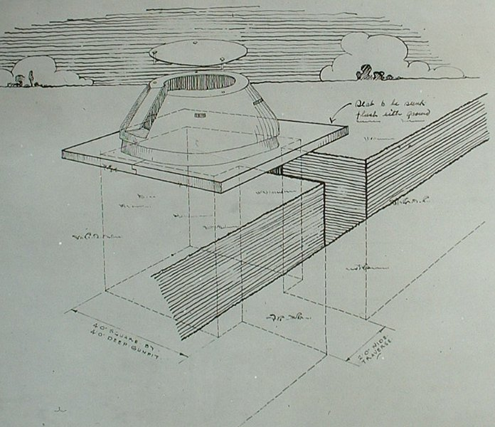 Tett turret sketch.